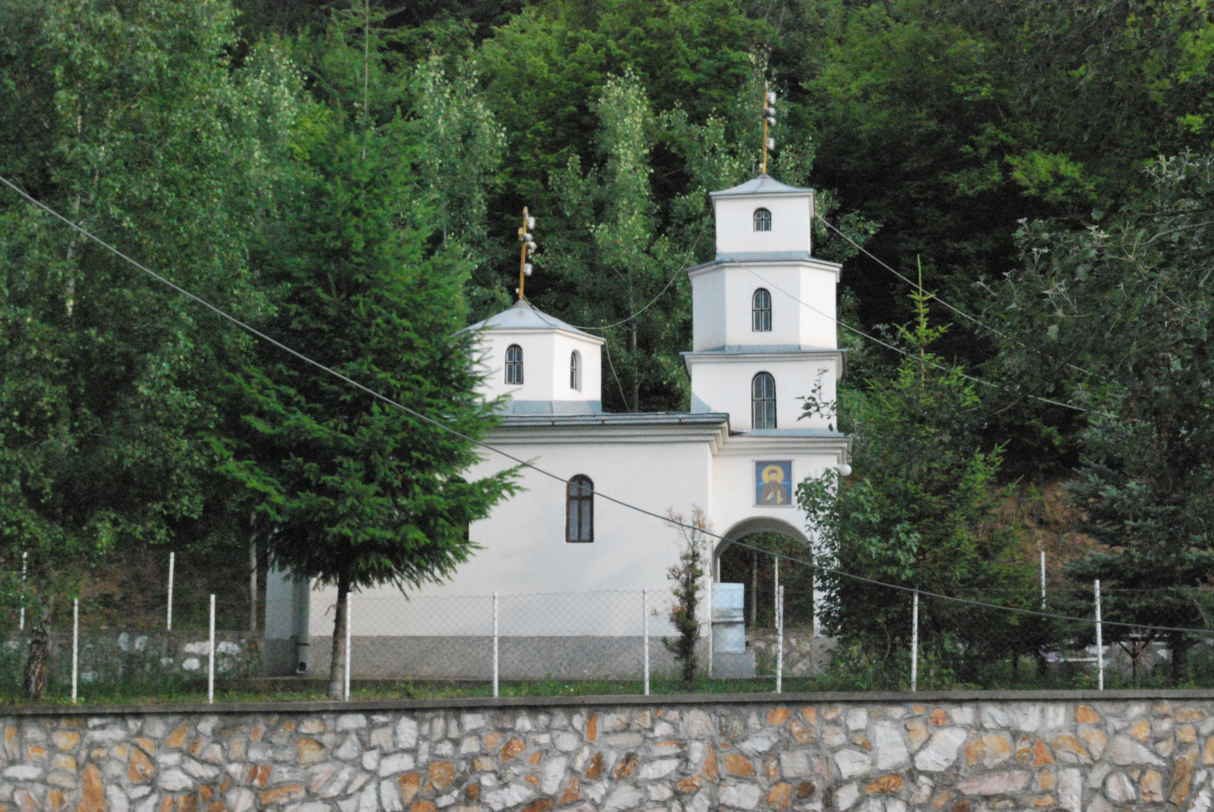 Church of Sts. Constantine and Helena in Blace, Tetovo, Macedonia